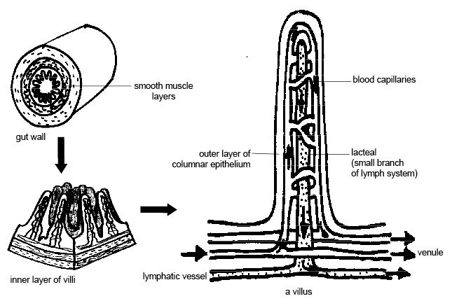 By Ruth Lawson. Otago Polytechnic.